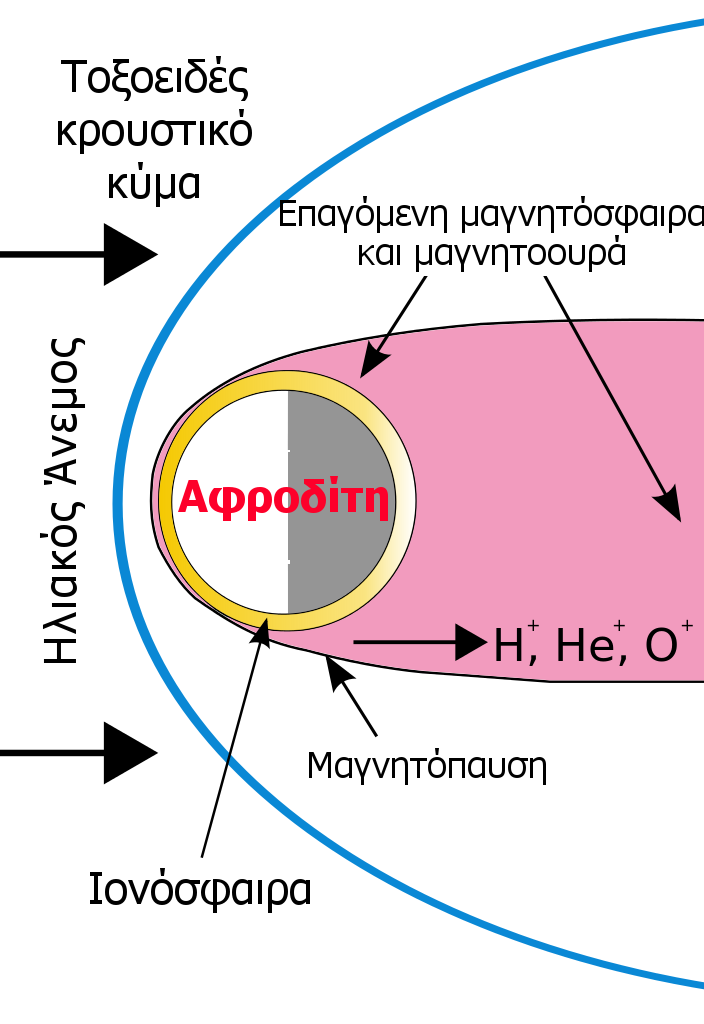 Translation of File:Venusian magnetosphere.svg to Greek